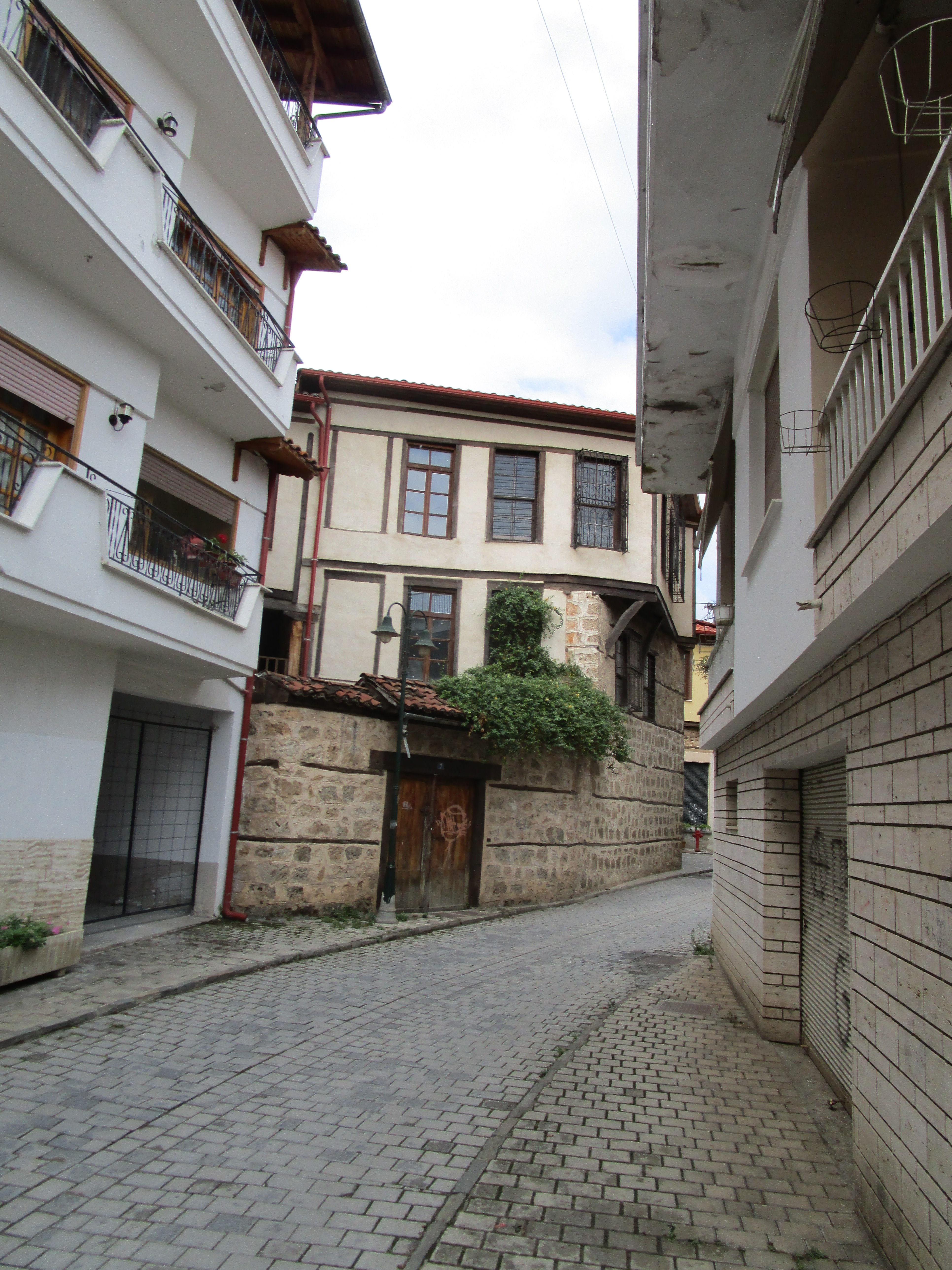 Buildings in Naousa